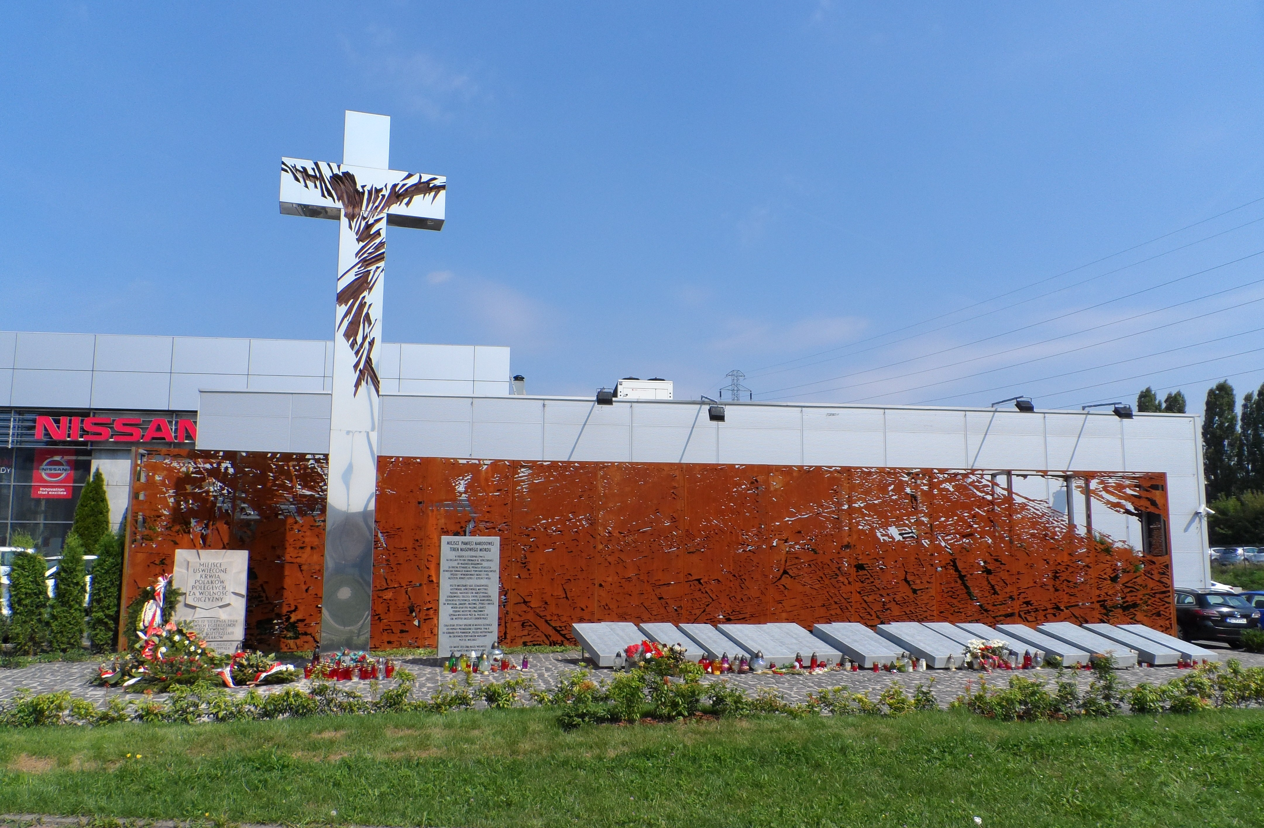 Place of National Memory at 32 Górczewska Street in Warsaw, commemorating the site where the greatest number of killings took place during so-called Wola massacre (first days of Warsaw Uprising). Between 5 and 8 August 1944, in the backyard of the building at the intersection of Górczewska Street and Zagłoby Street (currently non-existent), near the railway embankment, Nazi-German troops murdered almost 12 000 Polish men, women and children.